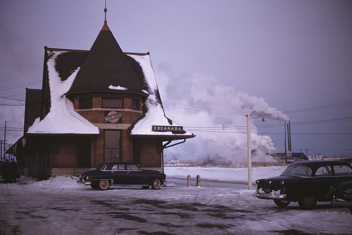 Chicago & North Western Railway Station, Escanaba, Michigan